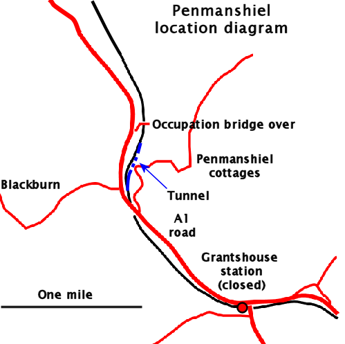 Location diagram of former Penmanshiel railway tunnel near Grantshouse, Scotland